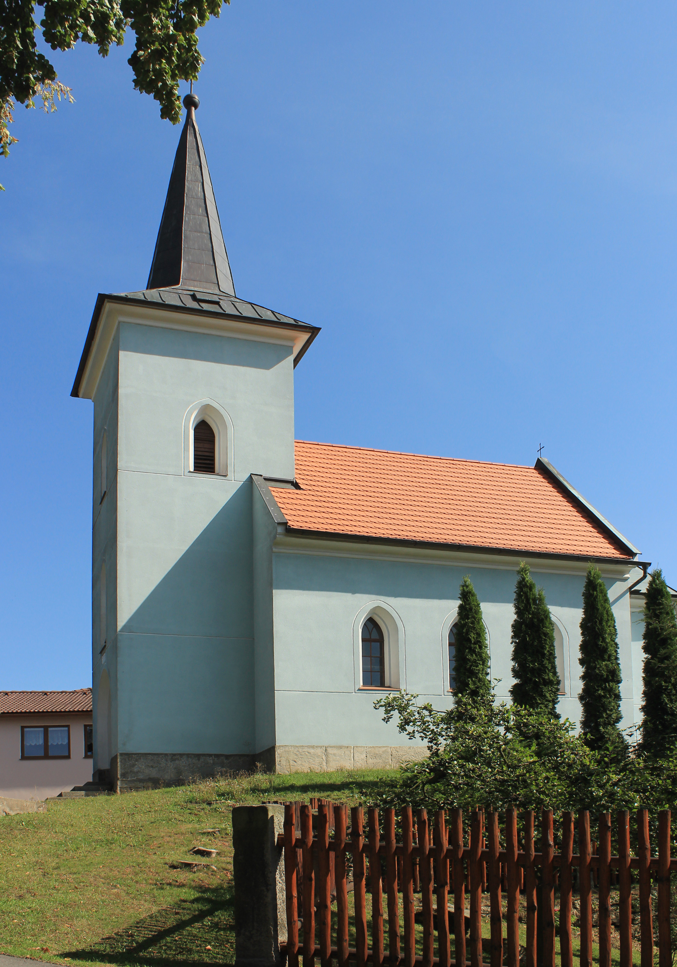 Small church in Vlčkov, Czech Republic.